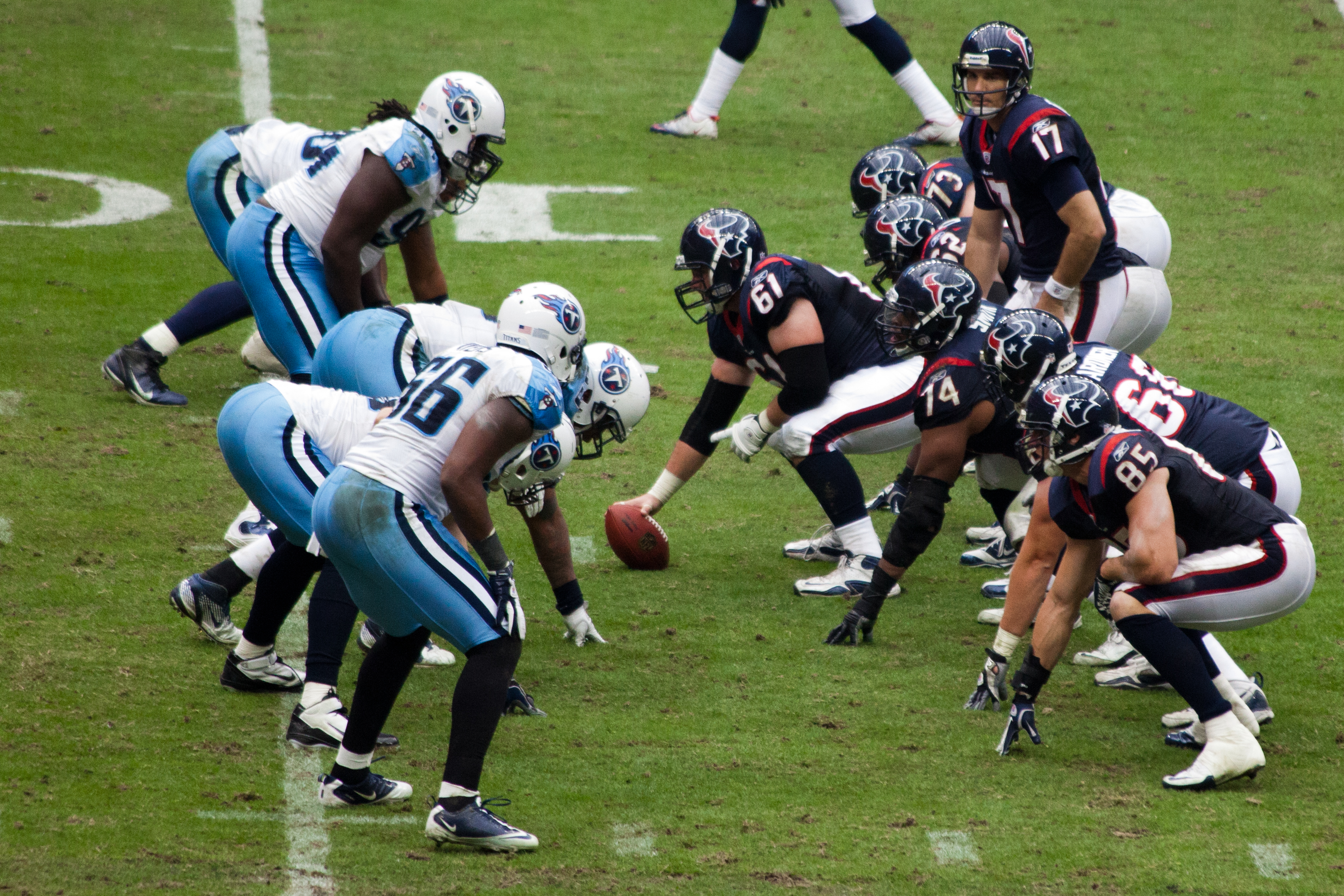 Houston Texans vs Tennessee Titans January 1, 2012